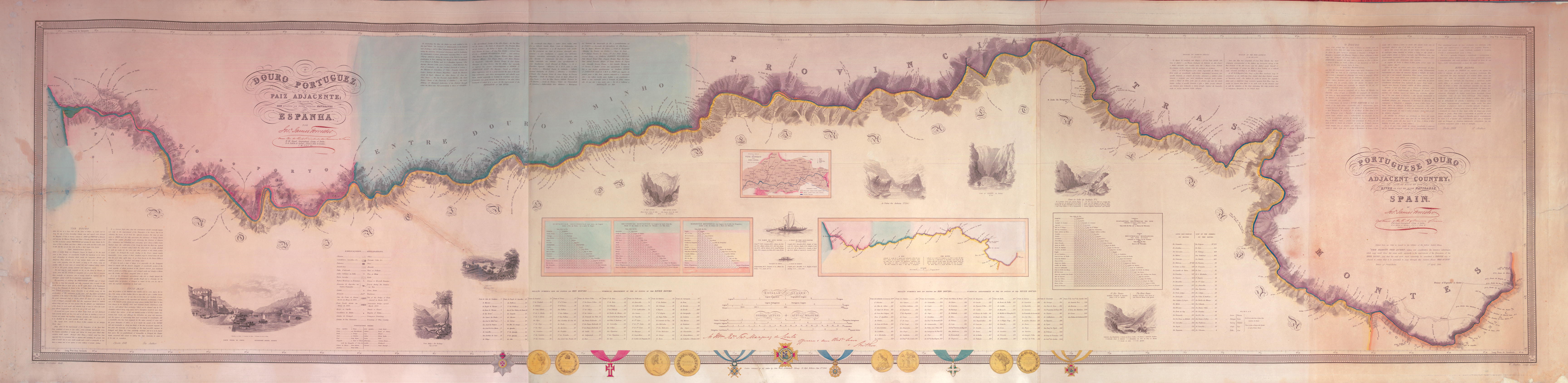 The portuguese Douro and the adjacent country and so much of the river as can be made navigable in Spain